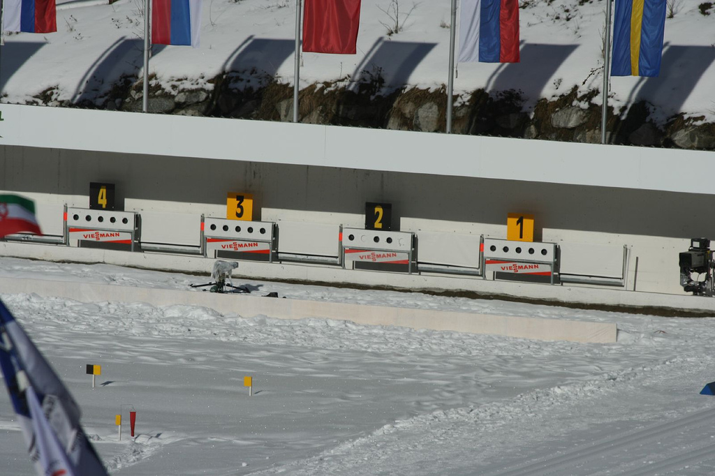 Photo of biathlon targets.